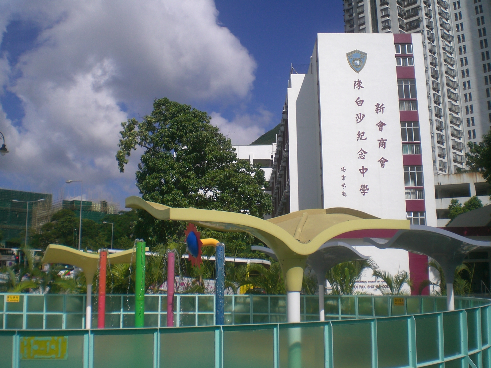 香港南區黃竹坑 深灣道 新會商會陳白沙紀念中學 & 包玉剛游泳池前景